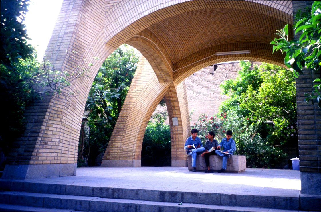 Boys sitting on Tomb of Ibn Khafif. Shiraz, Iran.